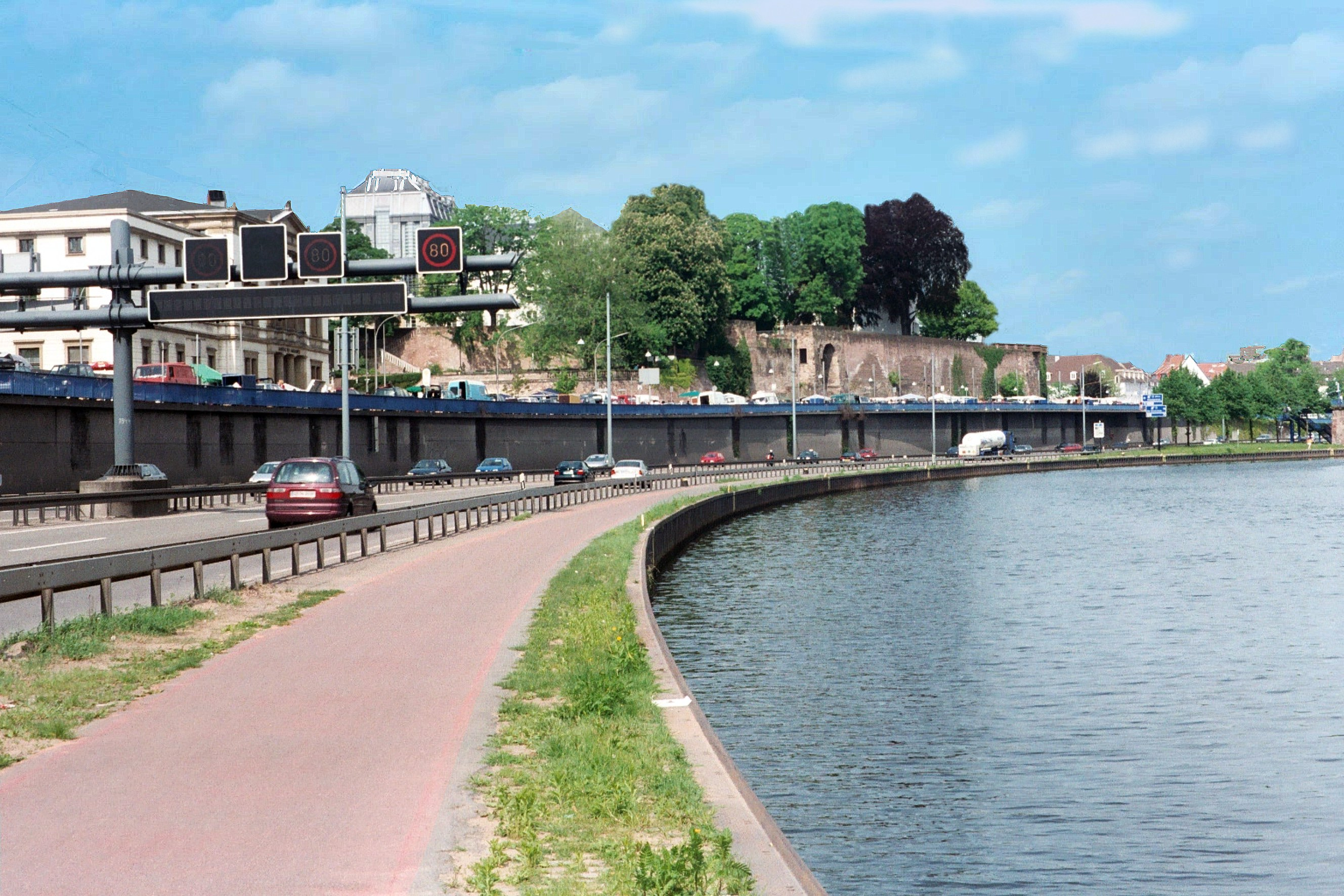 Saarbrücken, between the Saar and the city highway